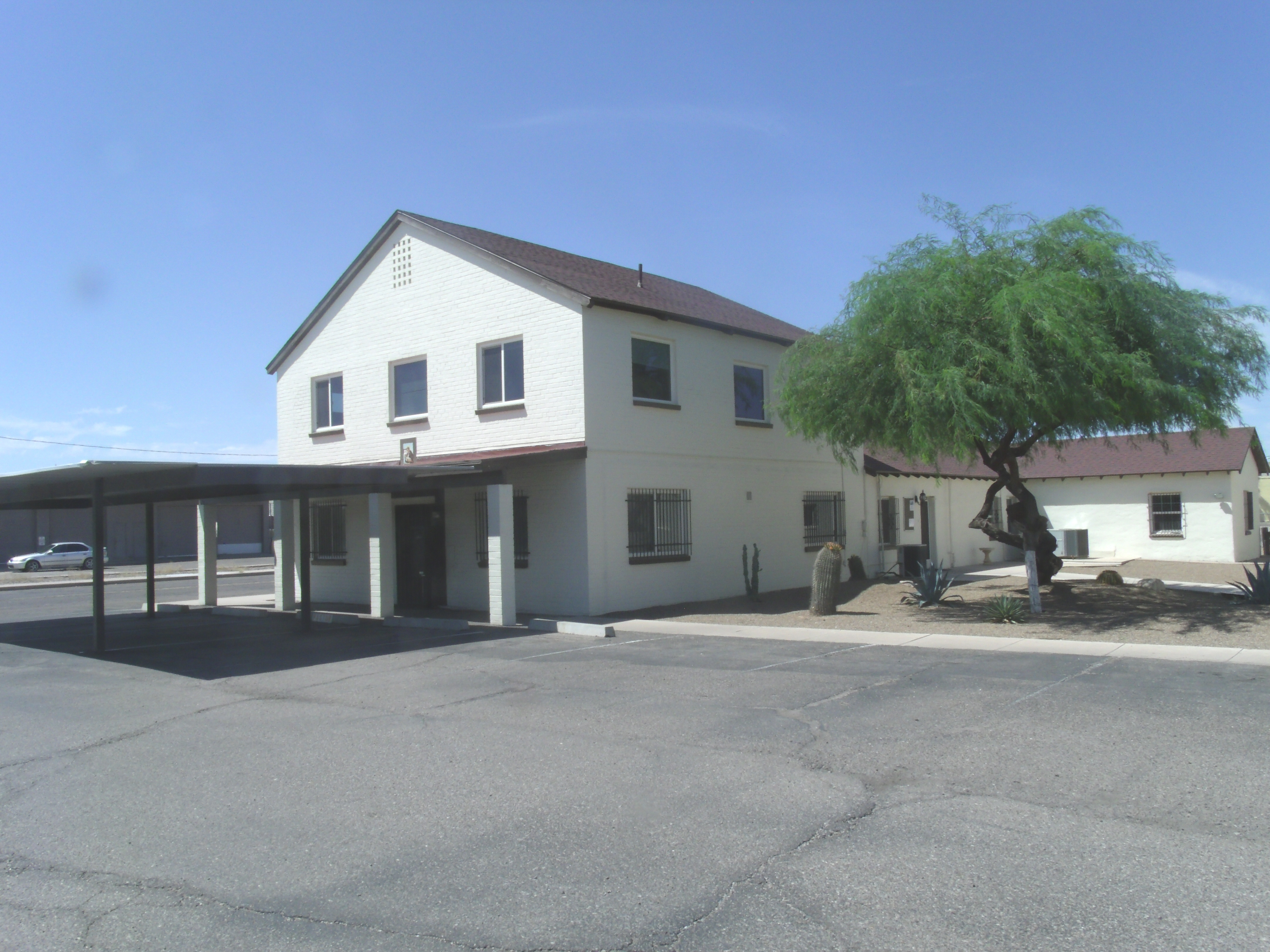 Saint Anthony's Church Rectory was built in 1935 and is located at 201 N. Picacho St. It was listed in the National Register of Historic Places in 1985, reference #85000892.